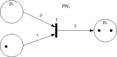 A Petri Net after its transition has fired.